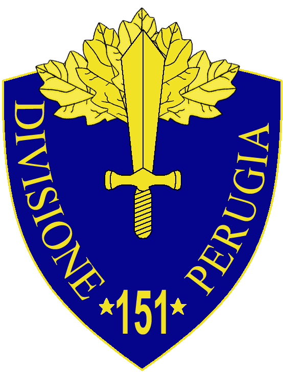 151a Divisione Fanteria Perugia insignia, Regio Esercito, Italy, WWII